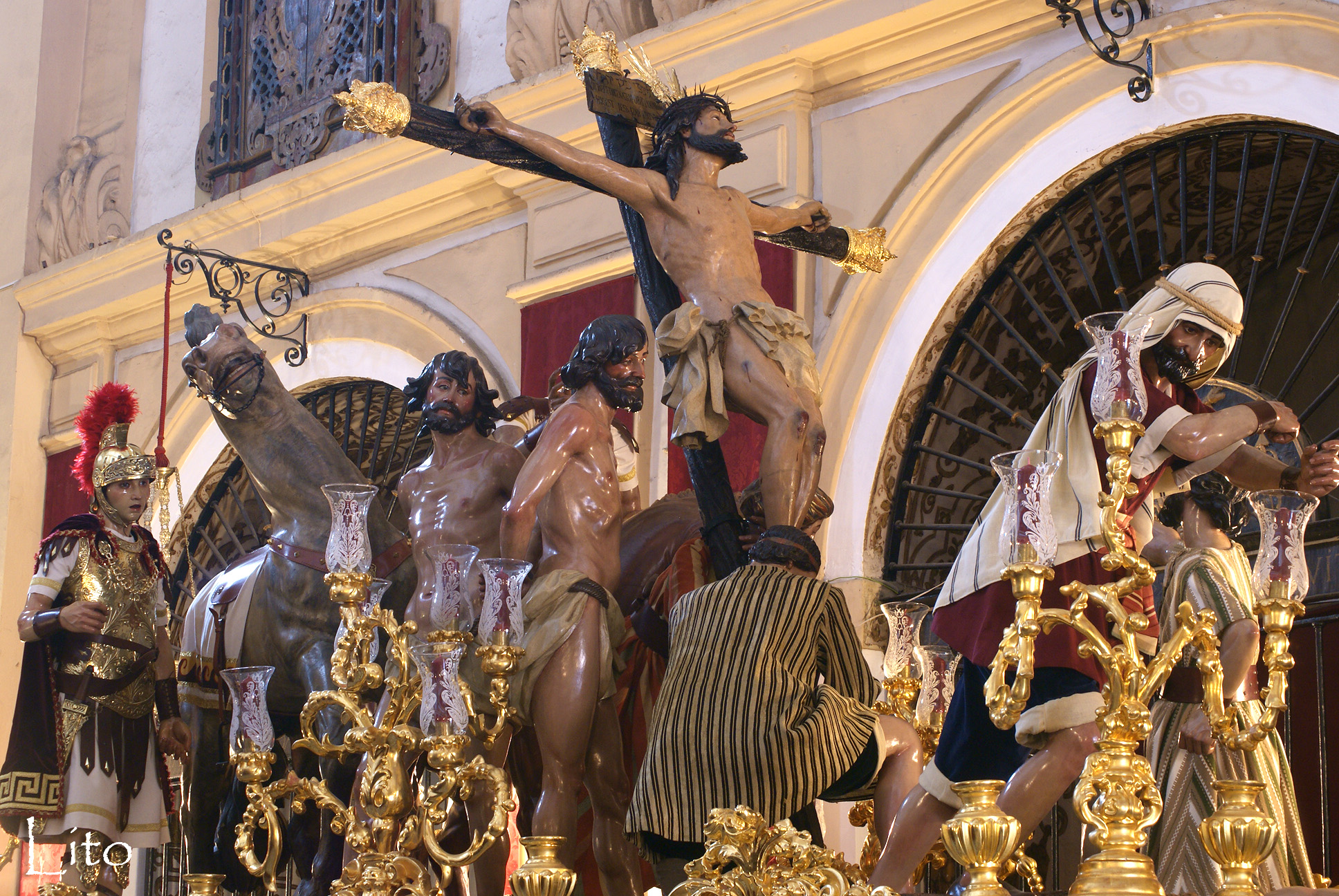 Misterio de la Exaltación foto realizada por Lito Álvarez Ruiz